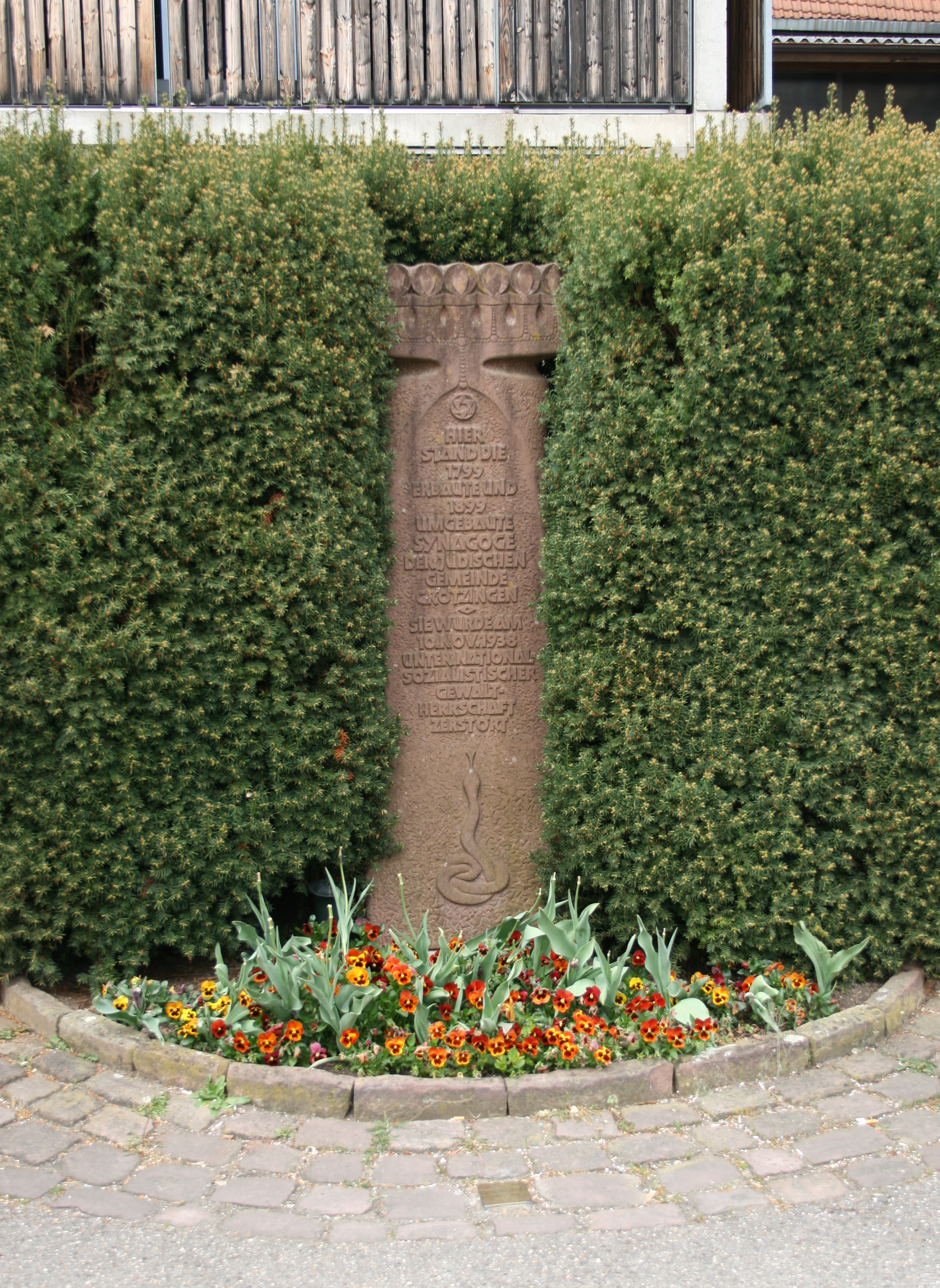 Memorial for the synagogue in Grötzingen that was destroyed in the Reichspogromnacht 1938